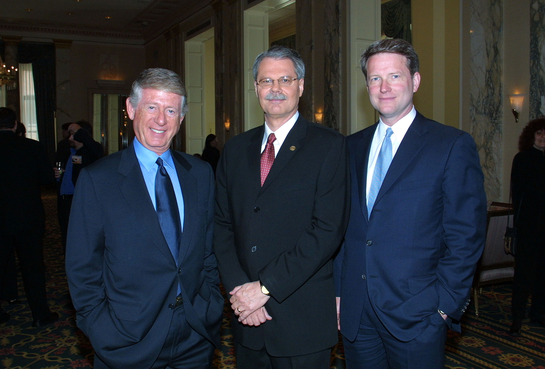 At the 61st Annual Peabody Awards luncheon, in 2002, Peabody Awards director Horace Newcomb (center) is flanked by ABC's David Westin and Ted Koppel. The ceremony and luncheon were held at the Waldorf-Astoria Hotel, in New York. PHOTO CREDIT: ANDERS KRUSBERG / PEABODY AWARDS